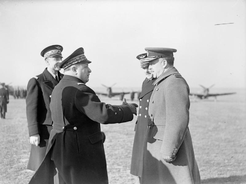 Royal Air Force- France, 1939-1940. General Joseph Vuillemin, Chief of the French Air Staff (second left), accompanied by his staff officers, talks with Air Marshal A S Barratt, Air Officer Commanding-in-Chief British Air Forces in France (right), during an awards ceremony at a French Air Force base.